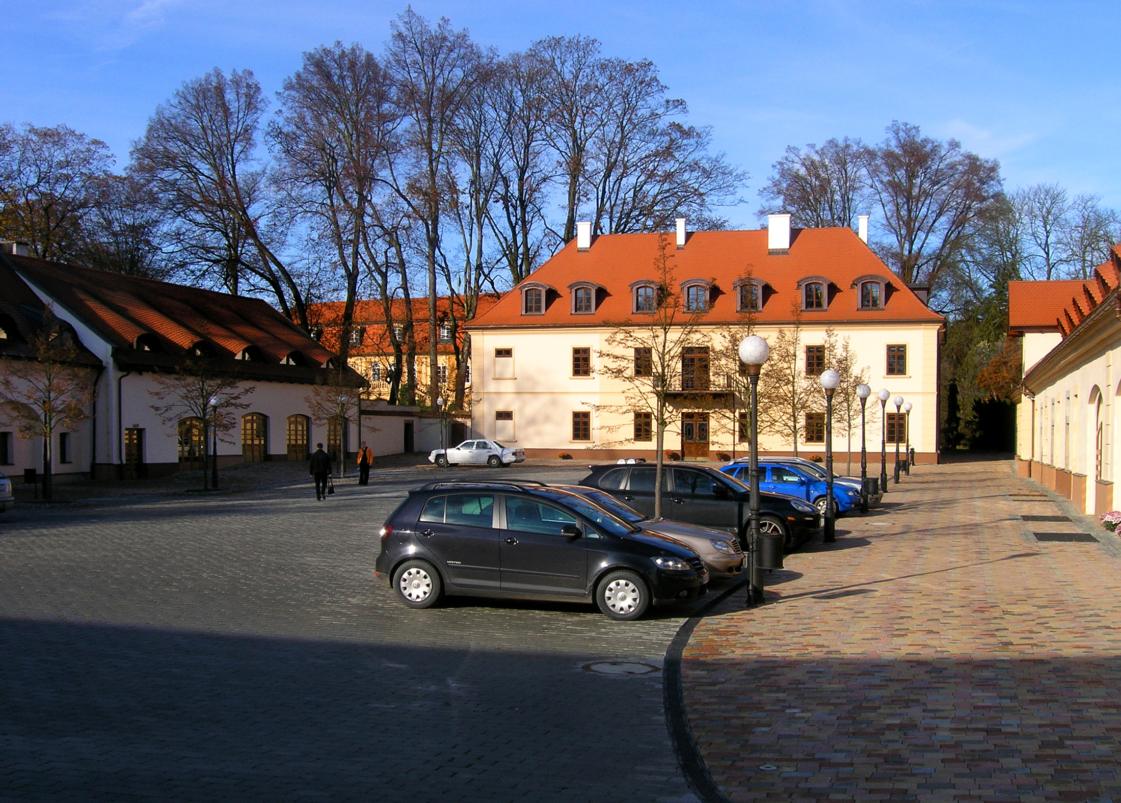 New housing by Štiřín castle, part of Kamenice village, Czech Republic